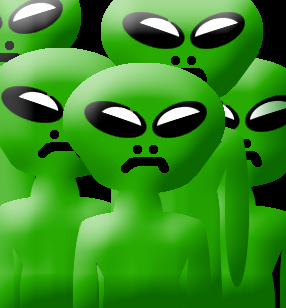 Little Green Men, Martians, Flying Saucer Crew or whatever you may wish to call it. I created this drawing with photoshop to make an illustration for the Dutch article on Little Green Men